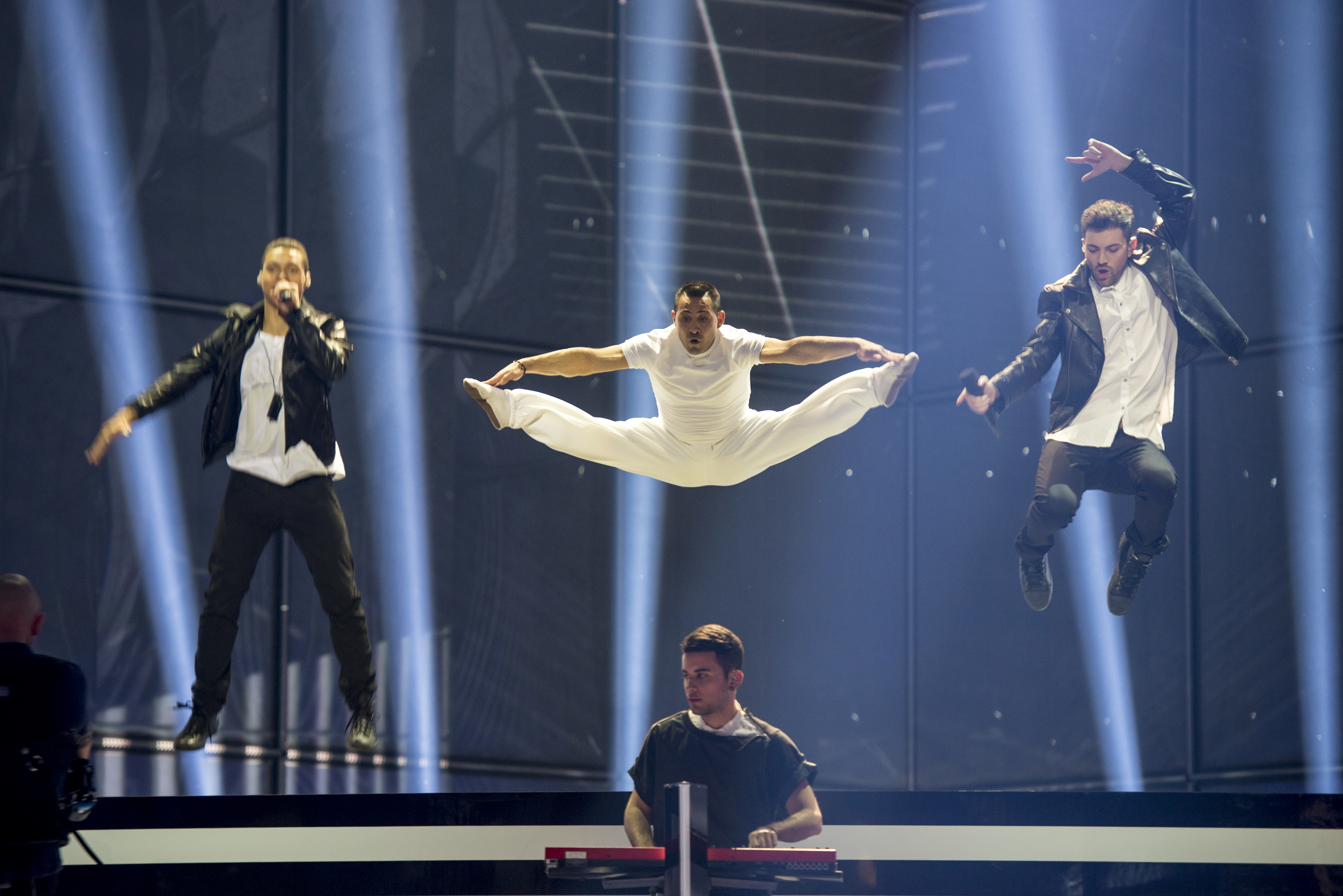 Freaky Fortune and Shane Schuller representing Greece with the song "Rise Up" during the first dress rehearsal of the second semi final of the Eurovision Song Contest 2014 Copenhagen. (Help translate this text)